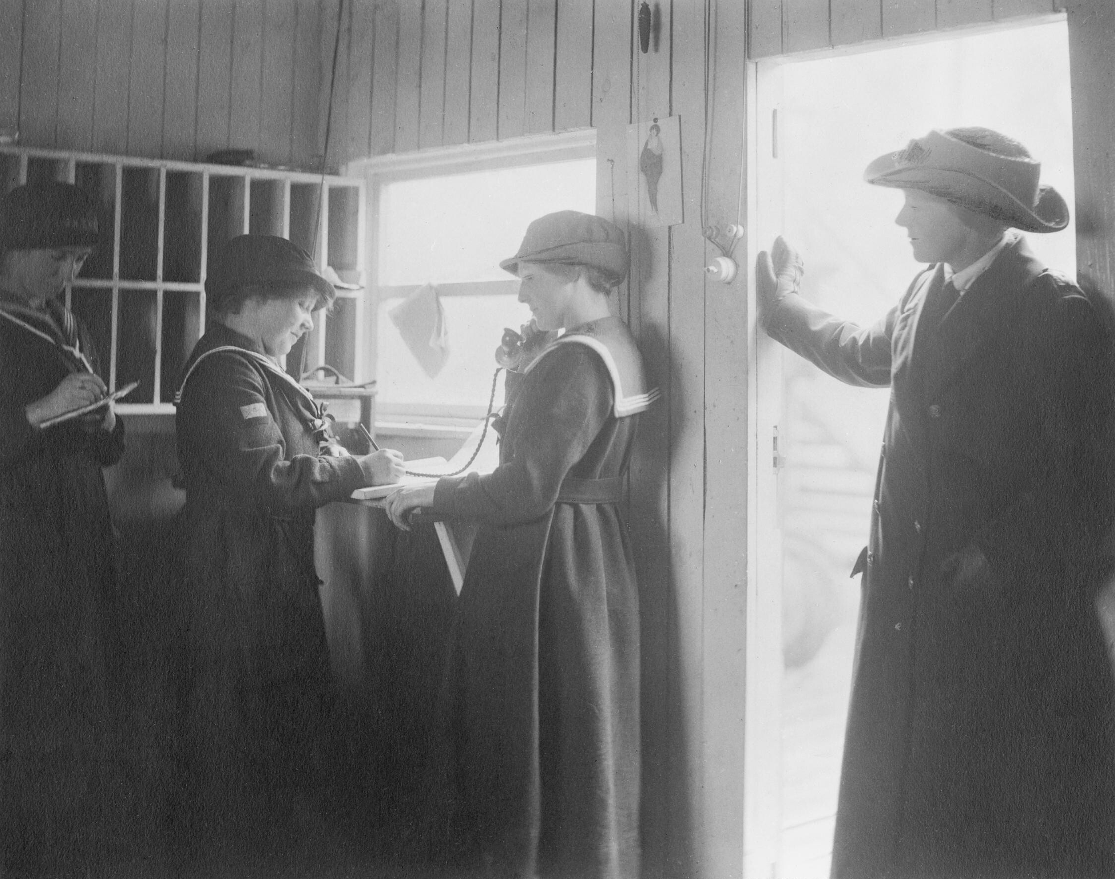 The Womens Royal Naval Service A group of WRNS at Ostende with Mrs Nevile.